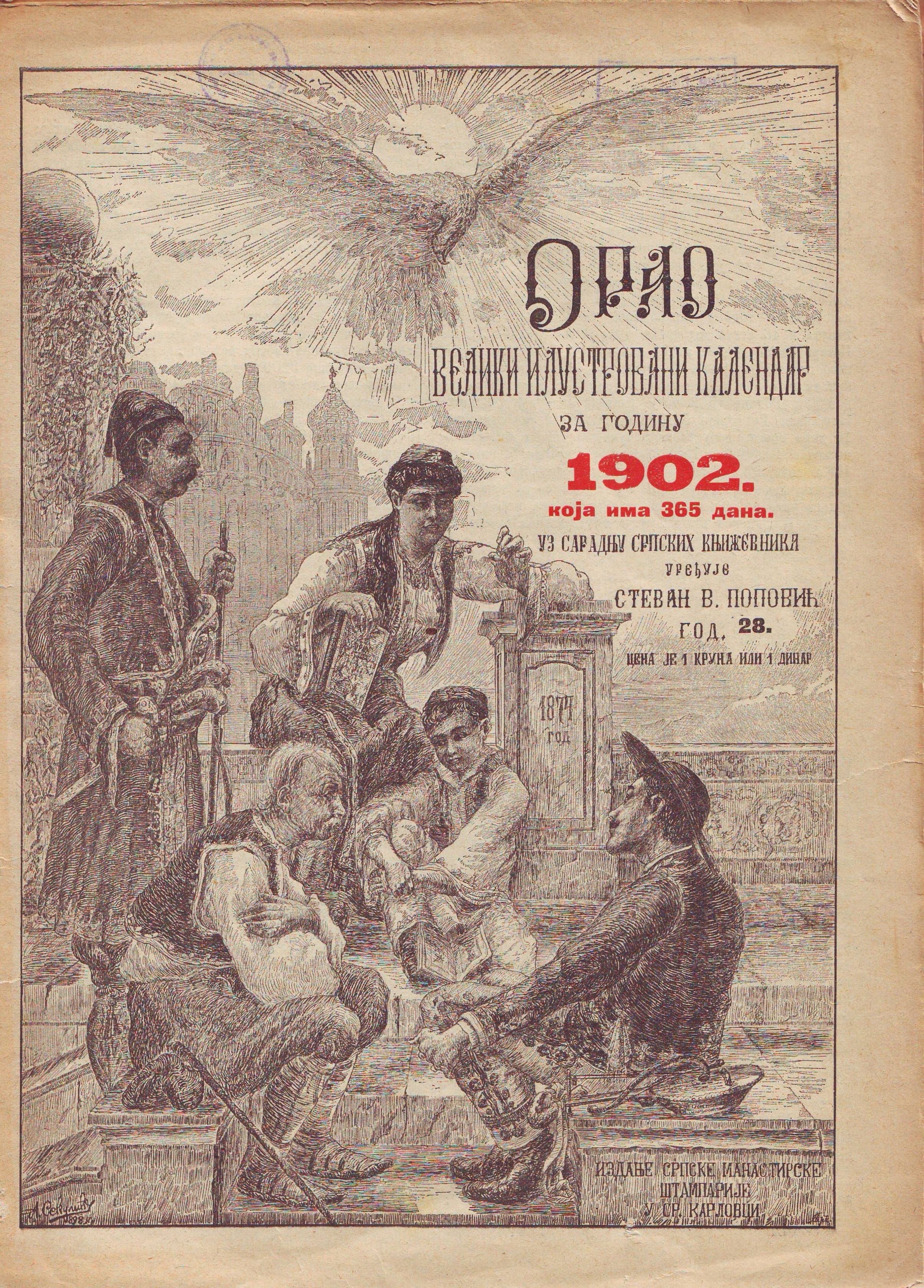 Cover of the 1902 edition of the illustrated calendar Orao. Srpski (latinica): Naslovna strana izdanja ilustrovanog kalendara Orao za 1902. godinu.